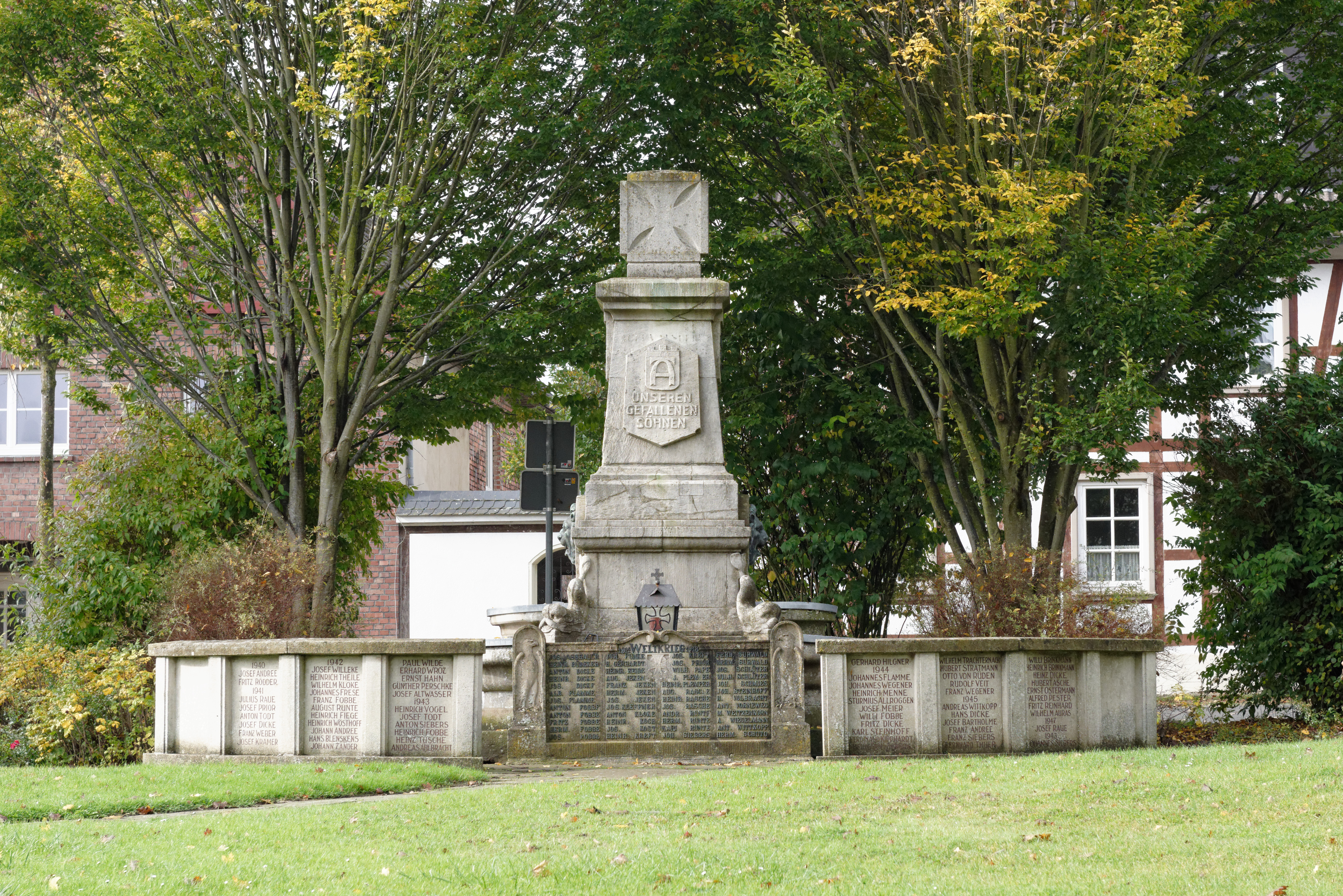 The making of this document was supported by the Community-Budget of Wikimedia Germany.